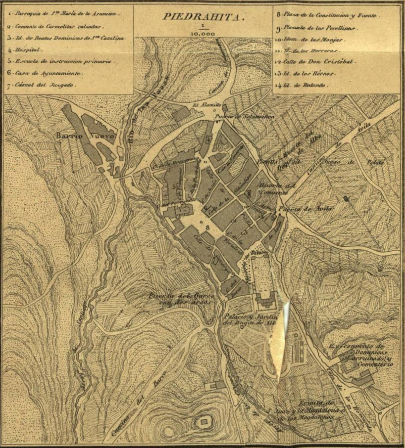 Map of Piedrahíta cropped from the 1864 province of Ávila map by Francisco Coello